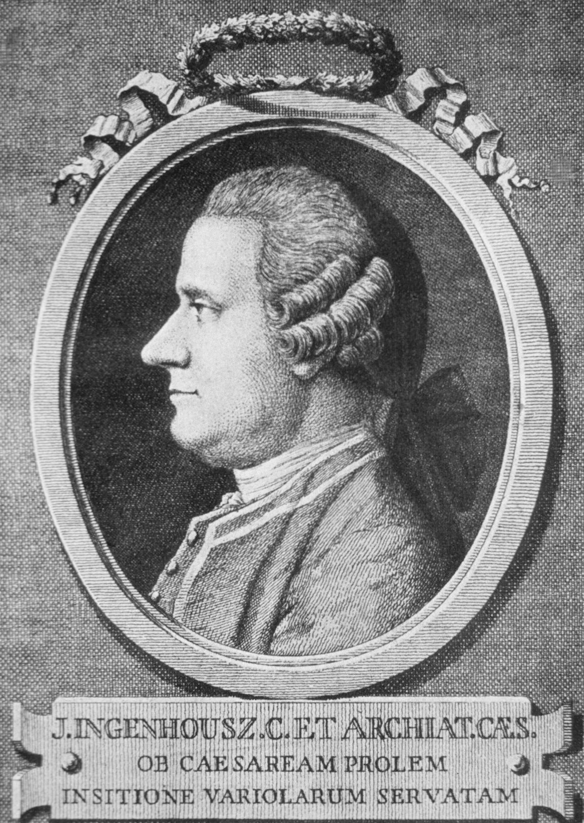 British scientists Ingenhousz. Discovered photosynthesis